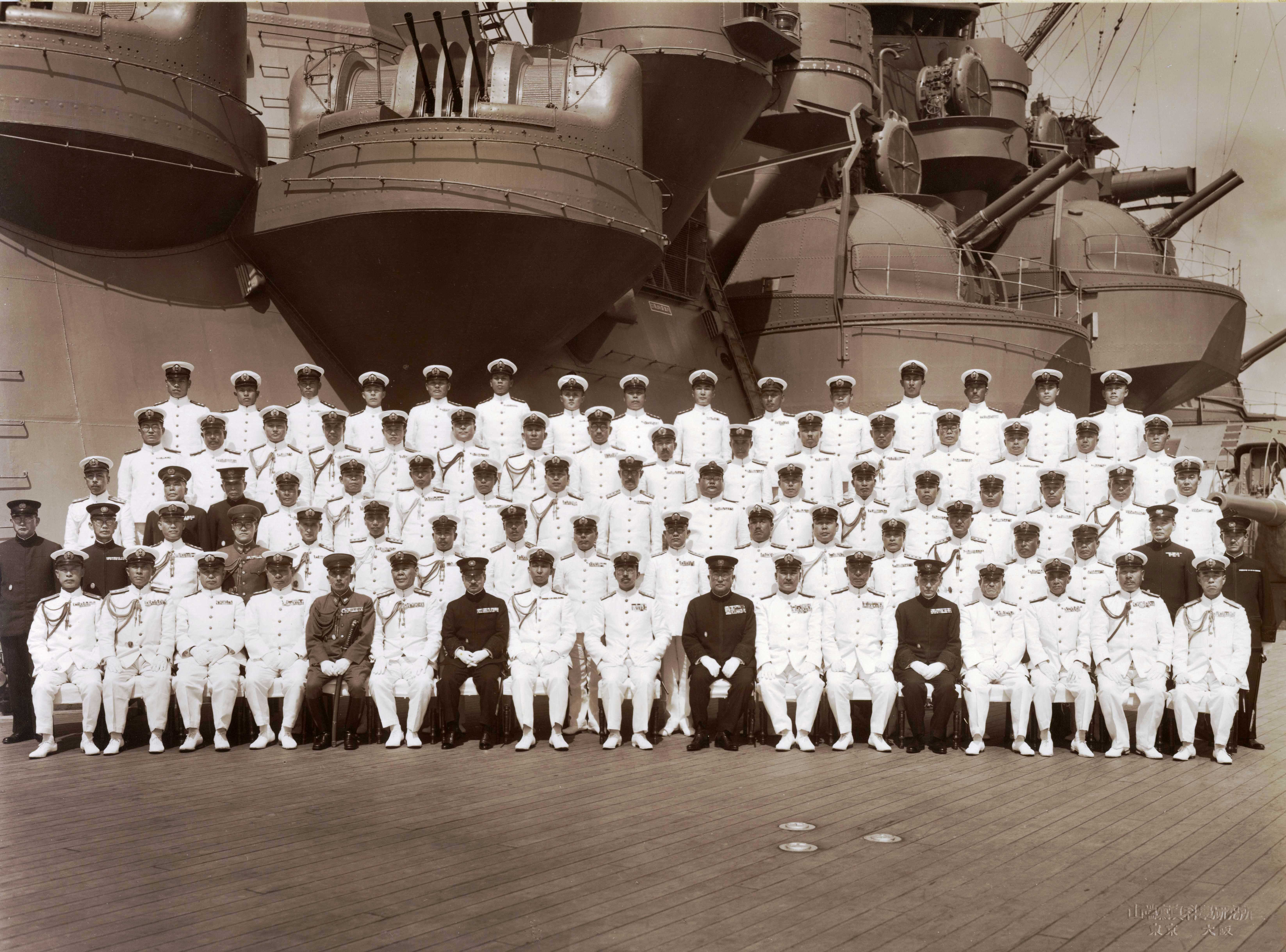 Emperor Hirohito of Japan (front row, center), with officers of the Imperial Japanese Navy, on board the Japanese battleship Musashi off Yokosuka Naval Base, 24 June 1943. Admiral Osami Nagano is sixth from left in the front row.